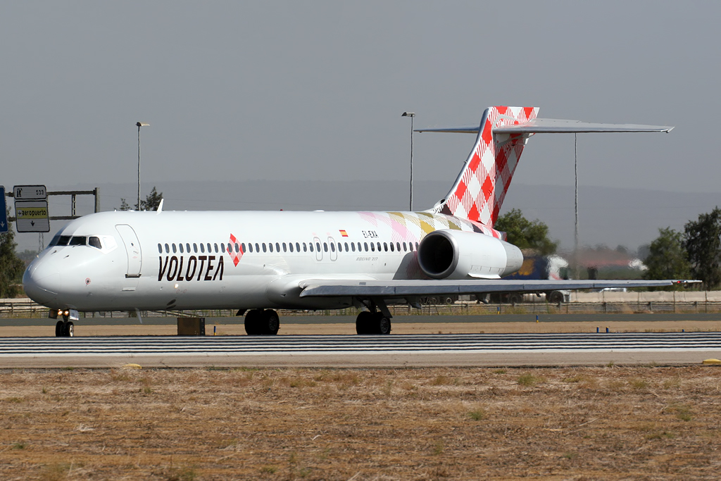 Seville Airport